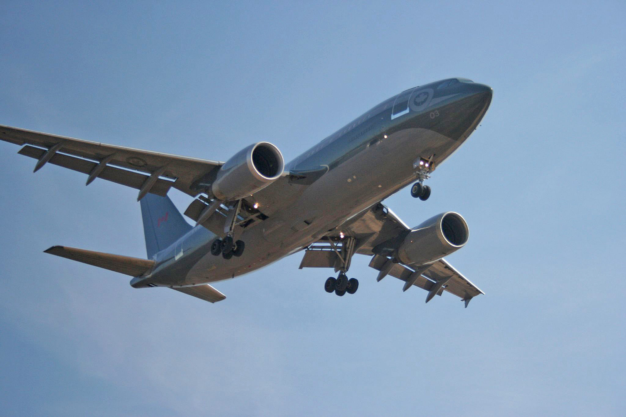 A CC-150 Polaris, a militarized version of the Airbus 310, on approach to CFB Trenton.